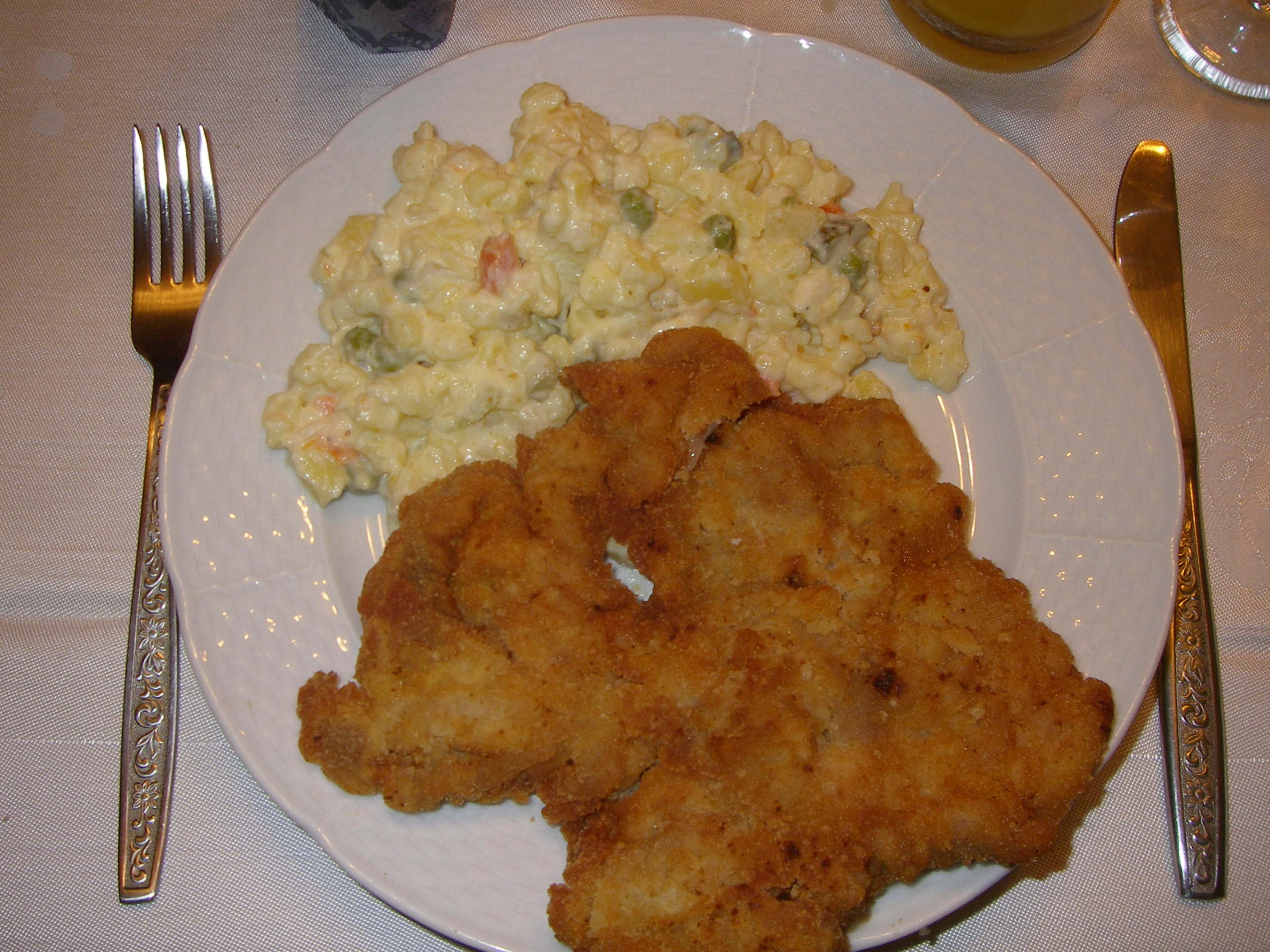 Slovakian X-mas food (fish and potato salad with mayo and weg)